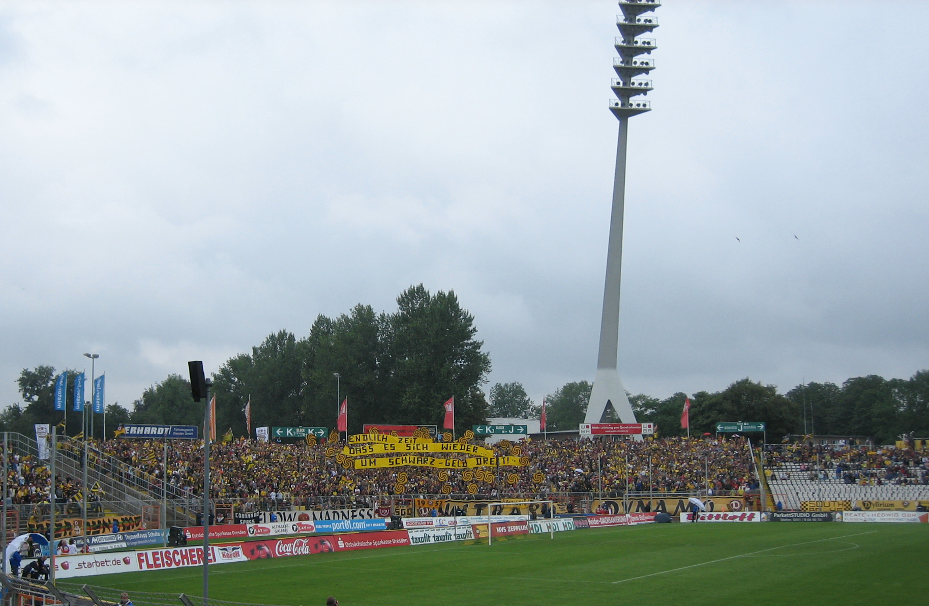 Supporters of Dynamo Dresden. It is their home stand in the Rudolf-Harbig-Stadion.